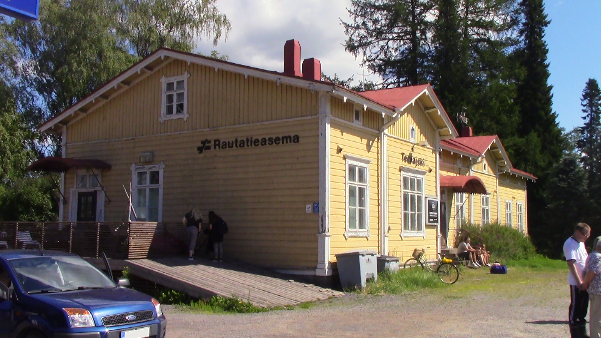 Tervajoki railway station in Isokyrö, Finland. The building is under a private ownership in nowadays.